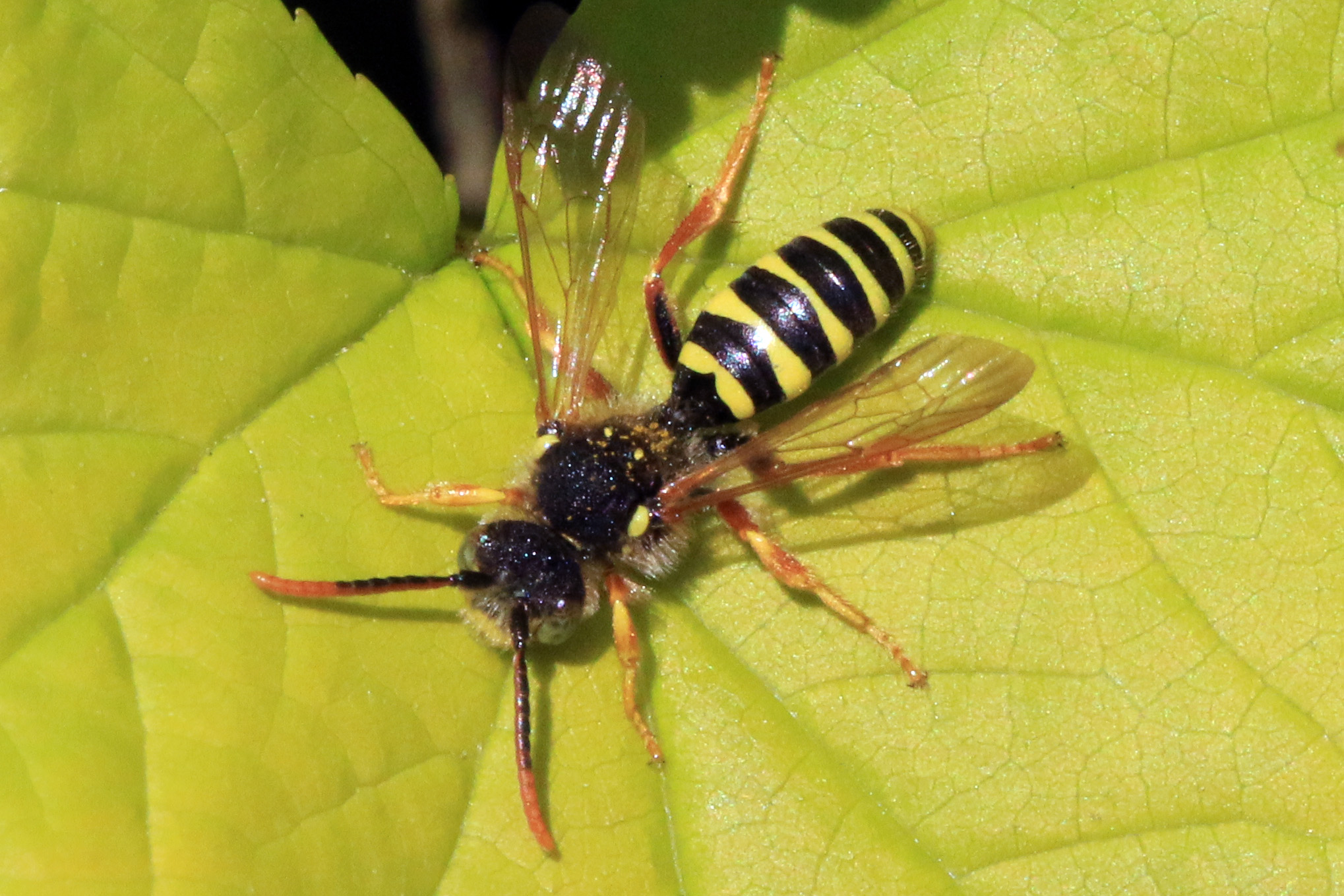 Cuckoo bee (Nomada sp.), Cumnor Hill, Oxfordshire